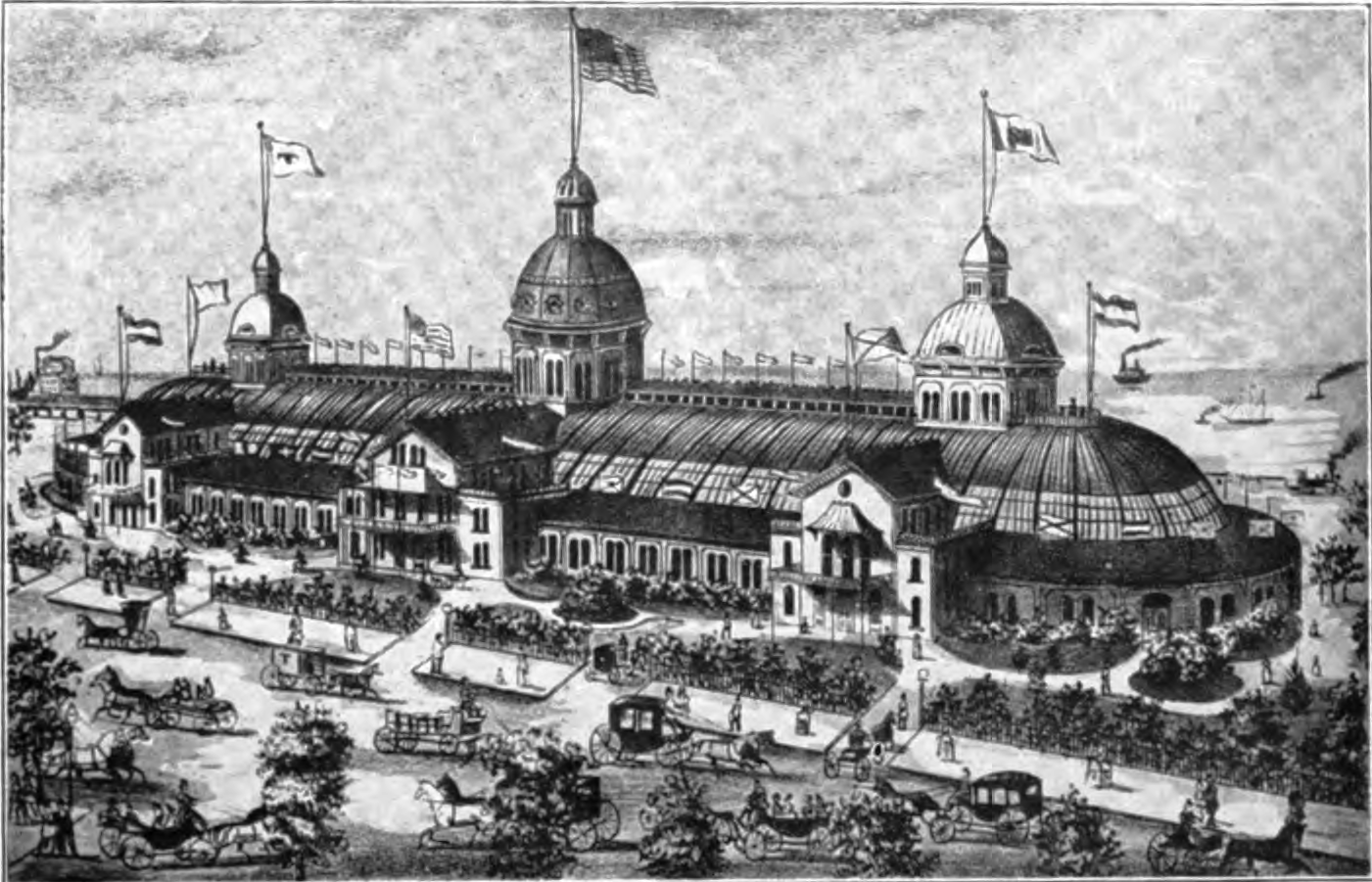 Chicago Interstate Industrial Exposition Building (built 1873, demolished 1892)